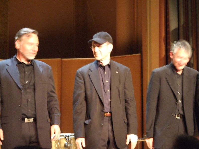 American composer Steve Reich at a performance of Drumming, Stockholms konserthus, Grünewaldsalen, 20/5 2007